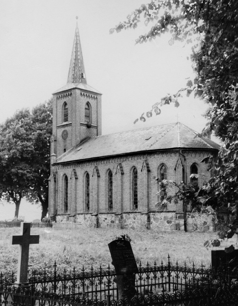 Mirow (Banzkow), Mecklenburg-Vorpommern (Germany), church , photo 1963